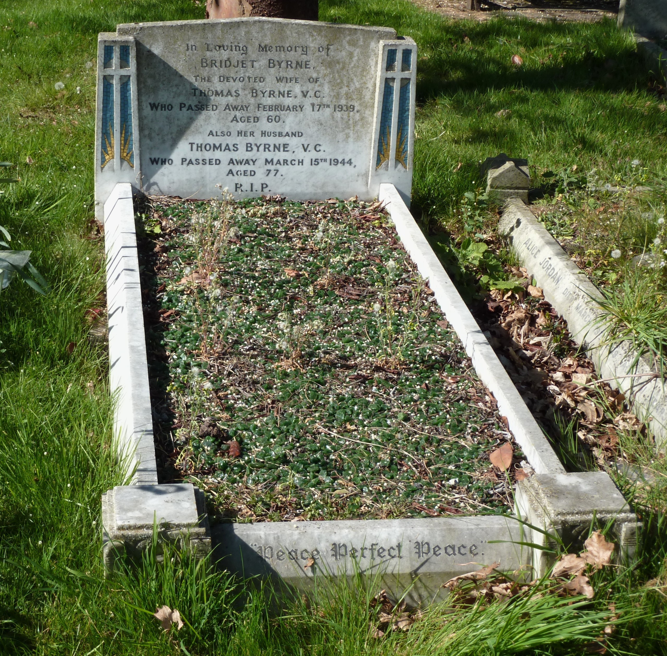 The grave of Irish soldier Thomas Byrne at Canterbury City Cemetery, England